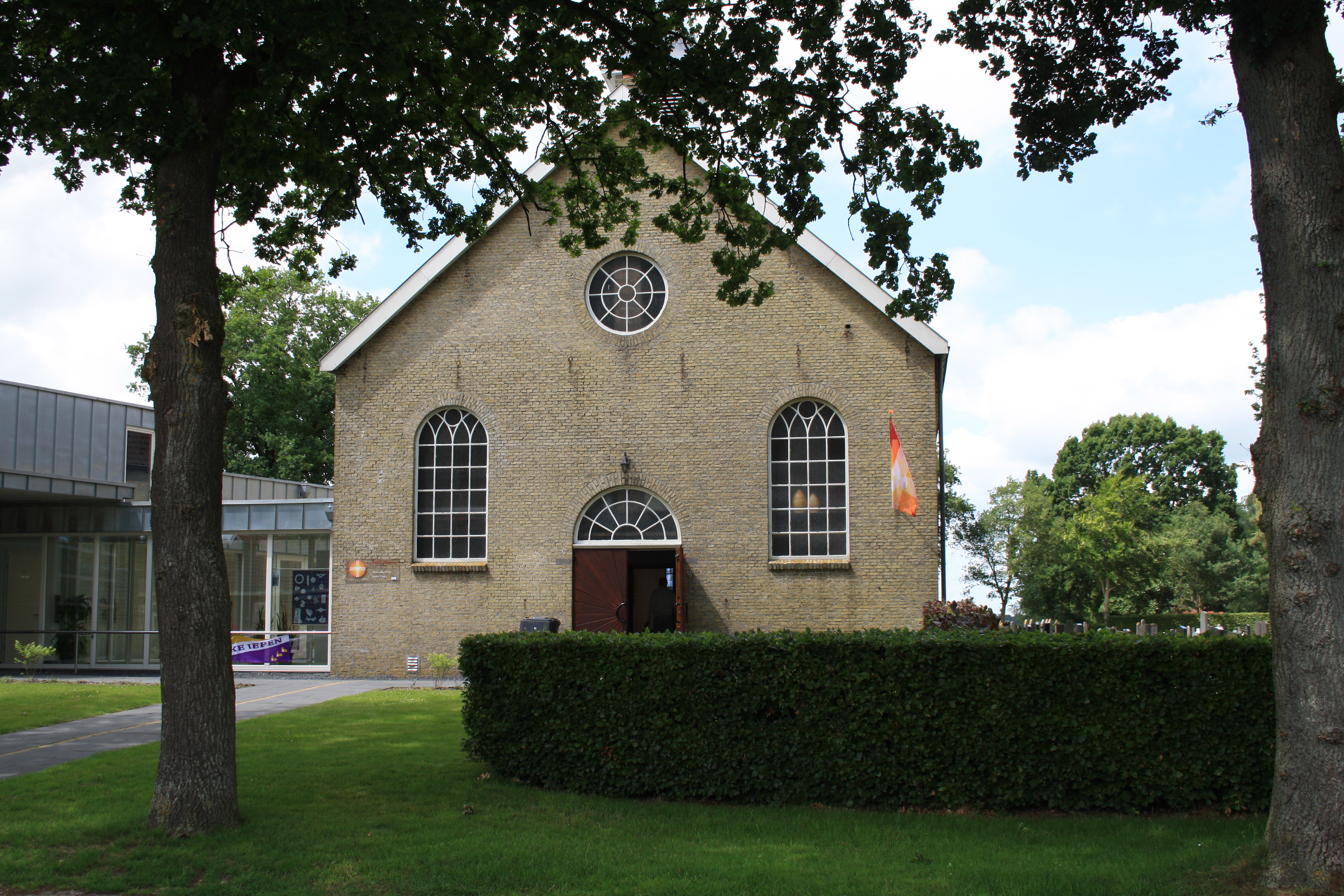 Church in Jubbega Derde sluis in Friesland